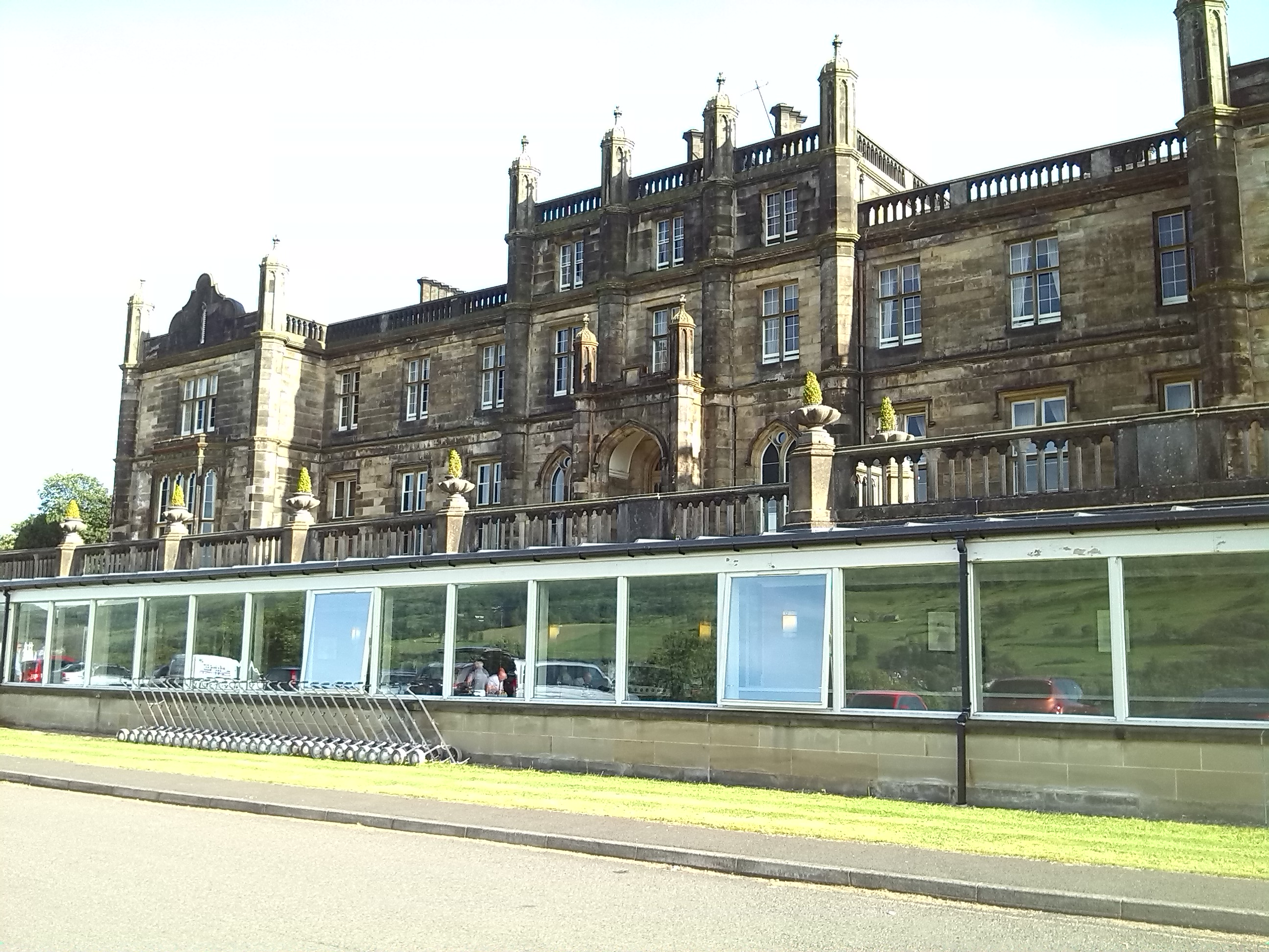 Erskine House. Also known as the Earl of Mar hotel. Grade A listed building. Designed by Sir Robert Smirke. Former Erskine hospital building.